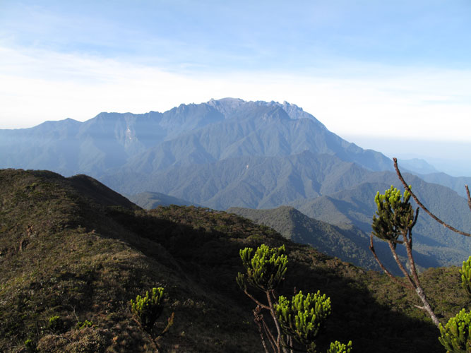 G.kinabalu view from summit of G.tambuyukon.